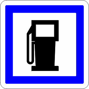 Author: Gregory Deryckère